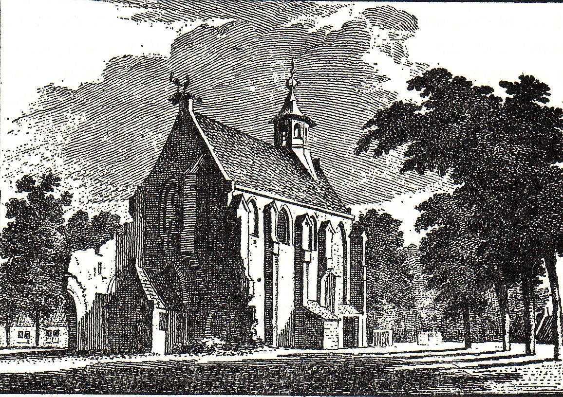 church West-Souburg. Kerk is afgbeorken in 1832